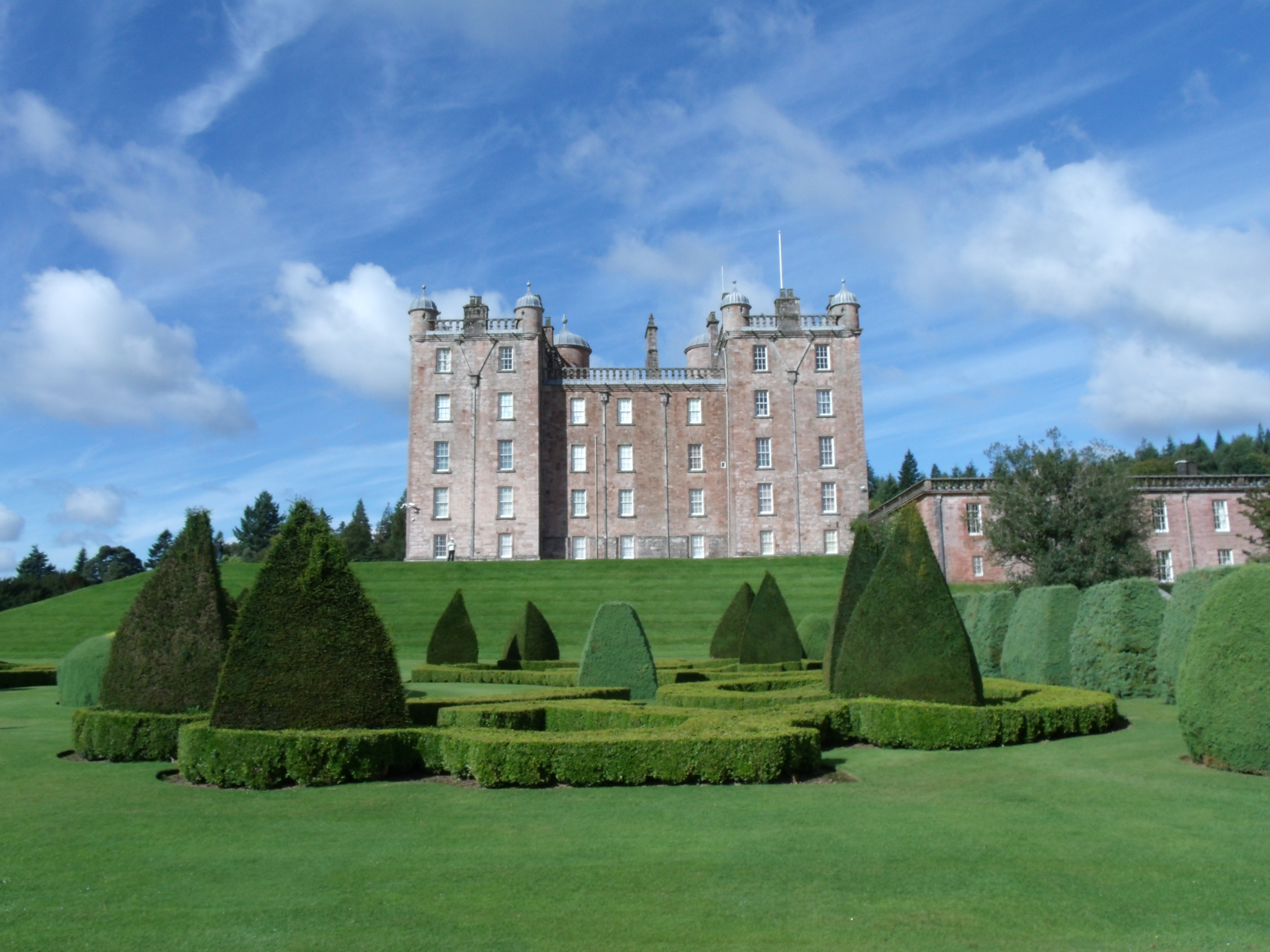 Drumlanrig Castle